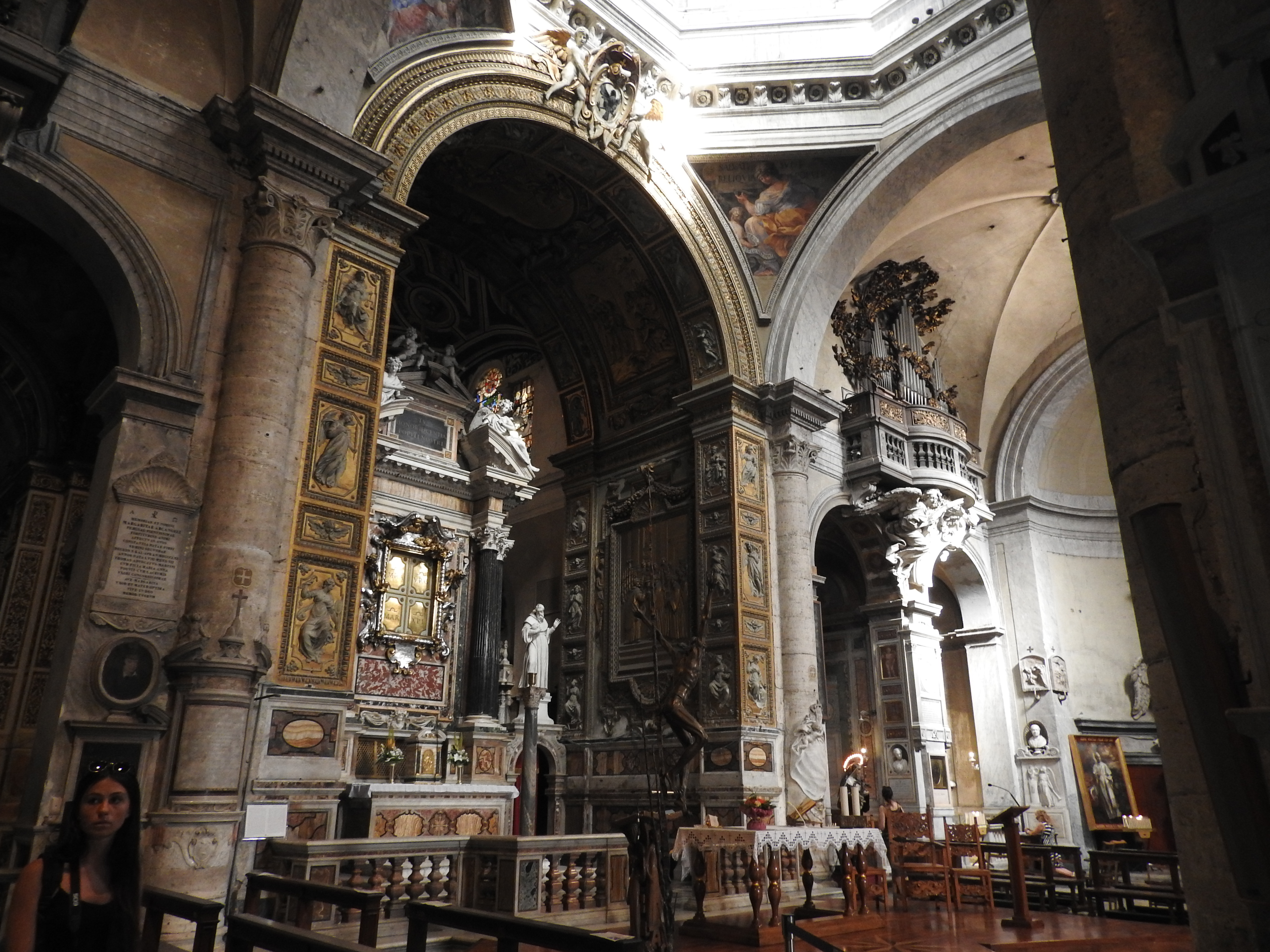 Altar of Basilica Santa Maria del Popolo in Rome.